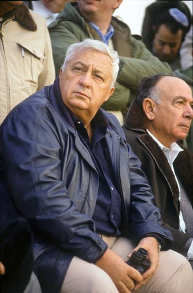 Ariel Sharon, People of Israel